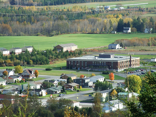 Sayabec High School